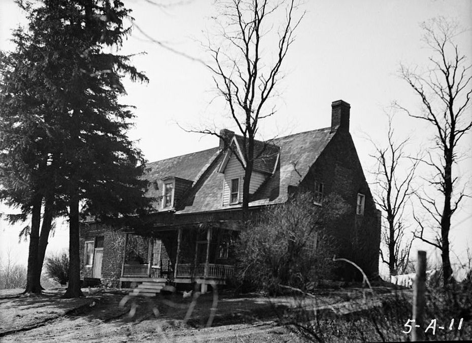 Adam Van Alen House, Kinderhook Creek Vicinity, Kinderhook, Columbia County, New York. View from Northeast. HABS photo, then cropped.